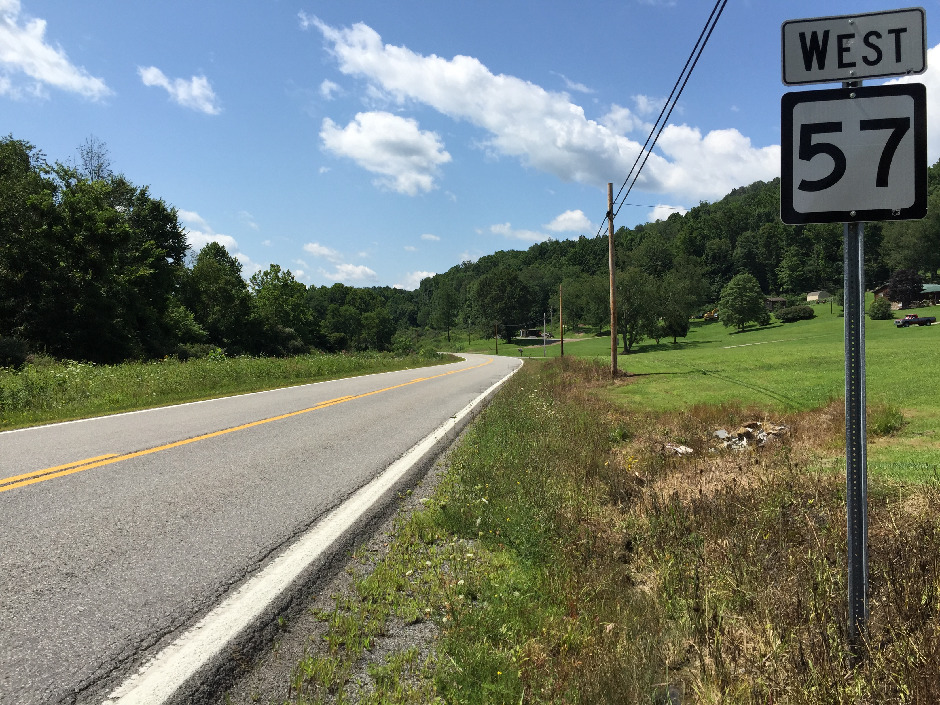 View west along West Virginia State Route 57 at Nutter Road (Barbour County Route 57/5) in Overfield, Barbour County, West Virginia